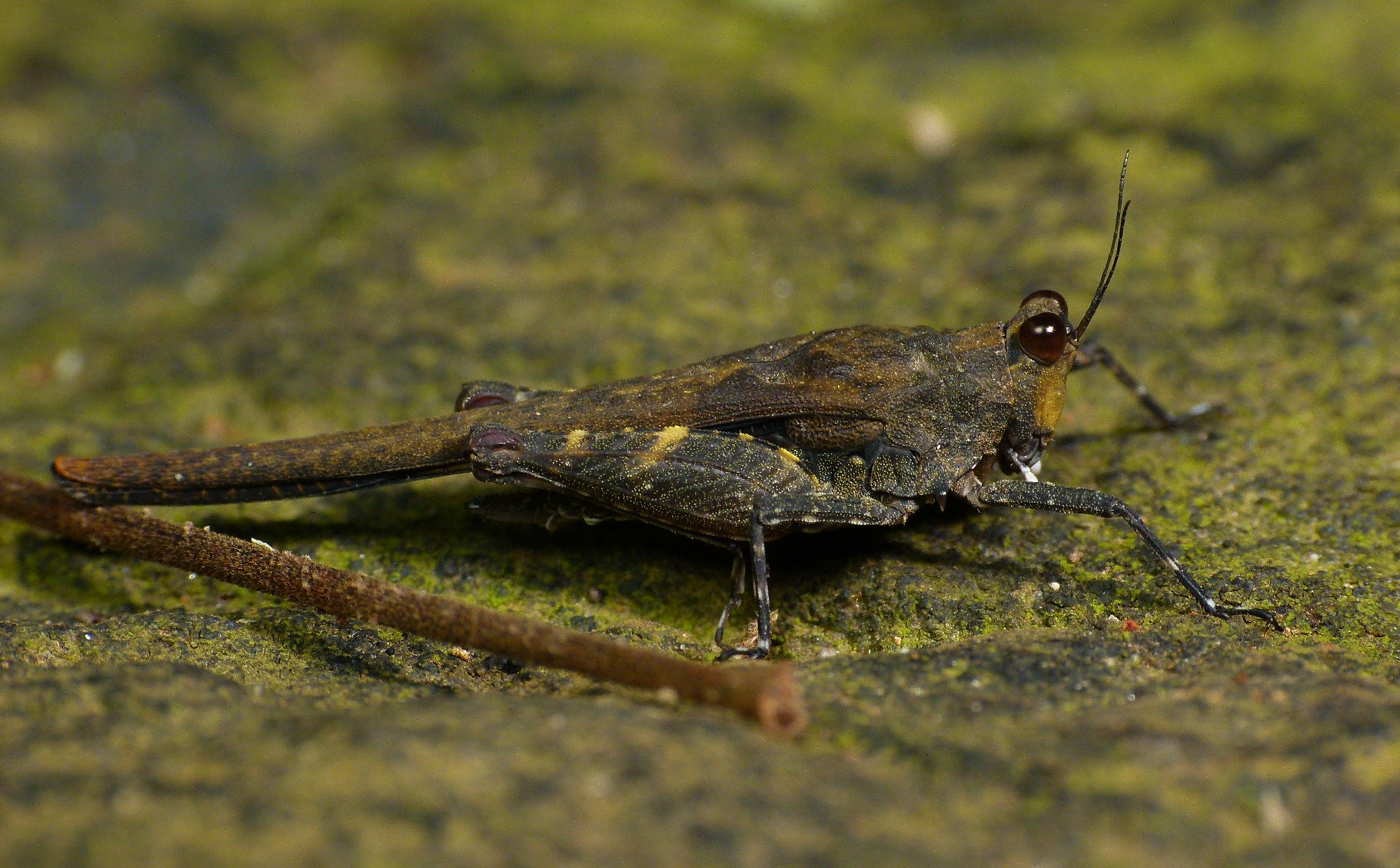 Unidentified Tetrigidae. Orthoptera. Western Ghats, India.